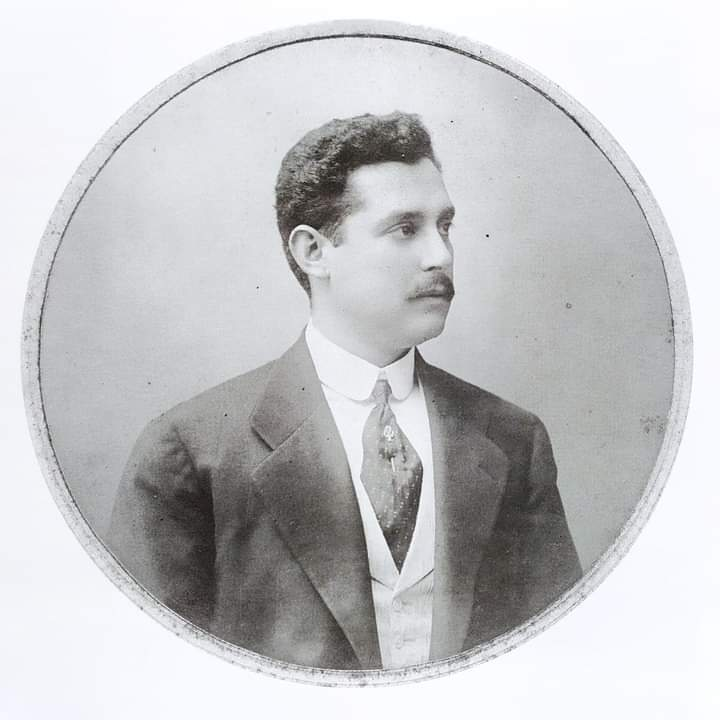 Jose Patricio Guggiari, president of Paraguay (1928-1933) in 1904.